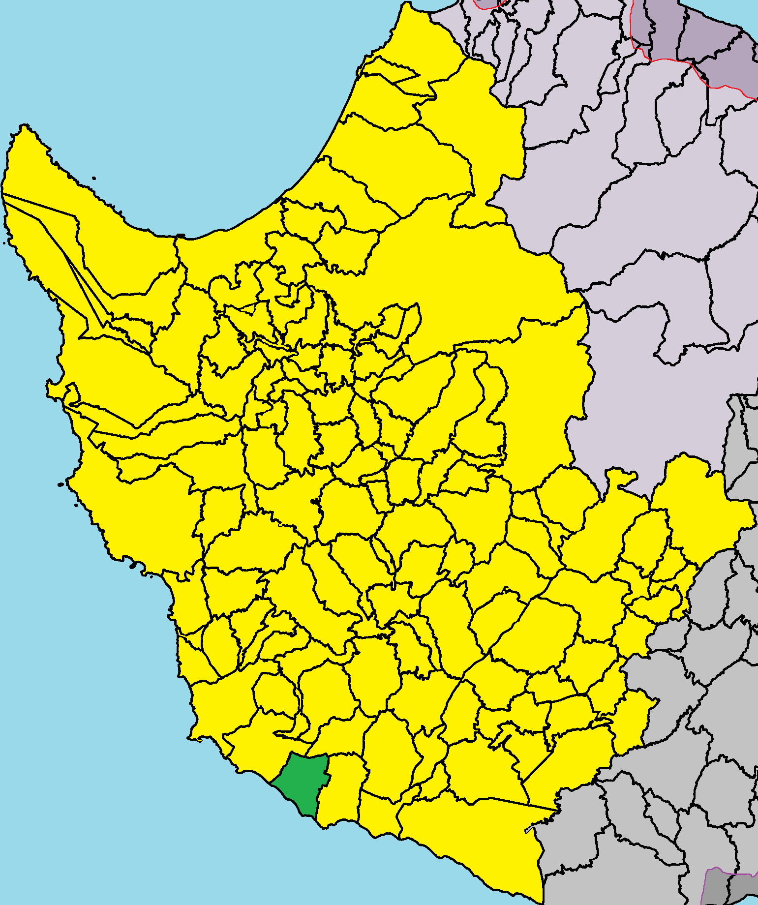 Acheleia in Paphos District.